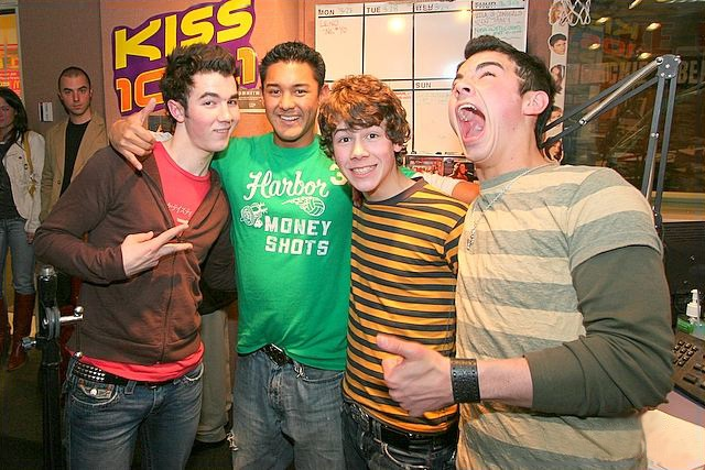 The Jonas Brothers with a fan.